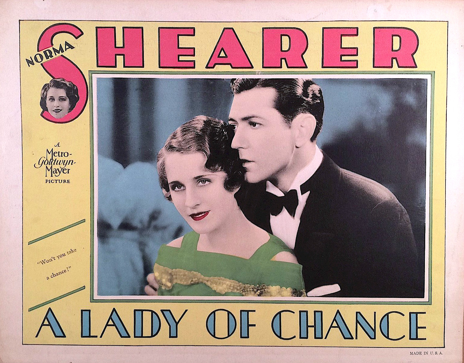 Lobby card for the American romantic comedy film A Lady of Chance (1928). There are no copyright marks on the card. At bottom right is Made in USA.